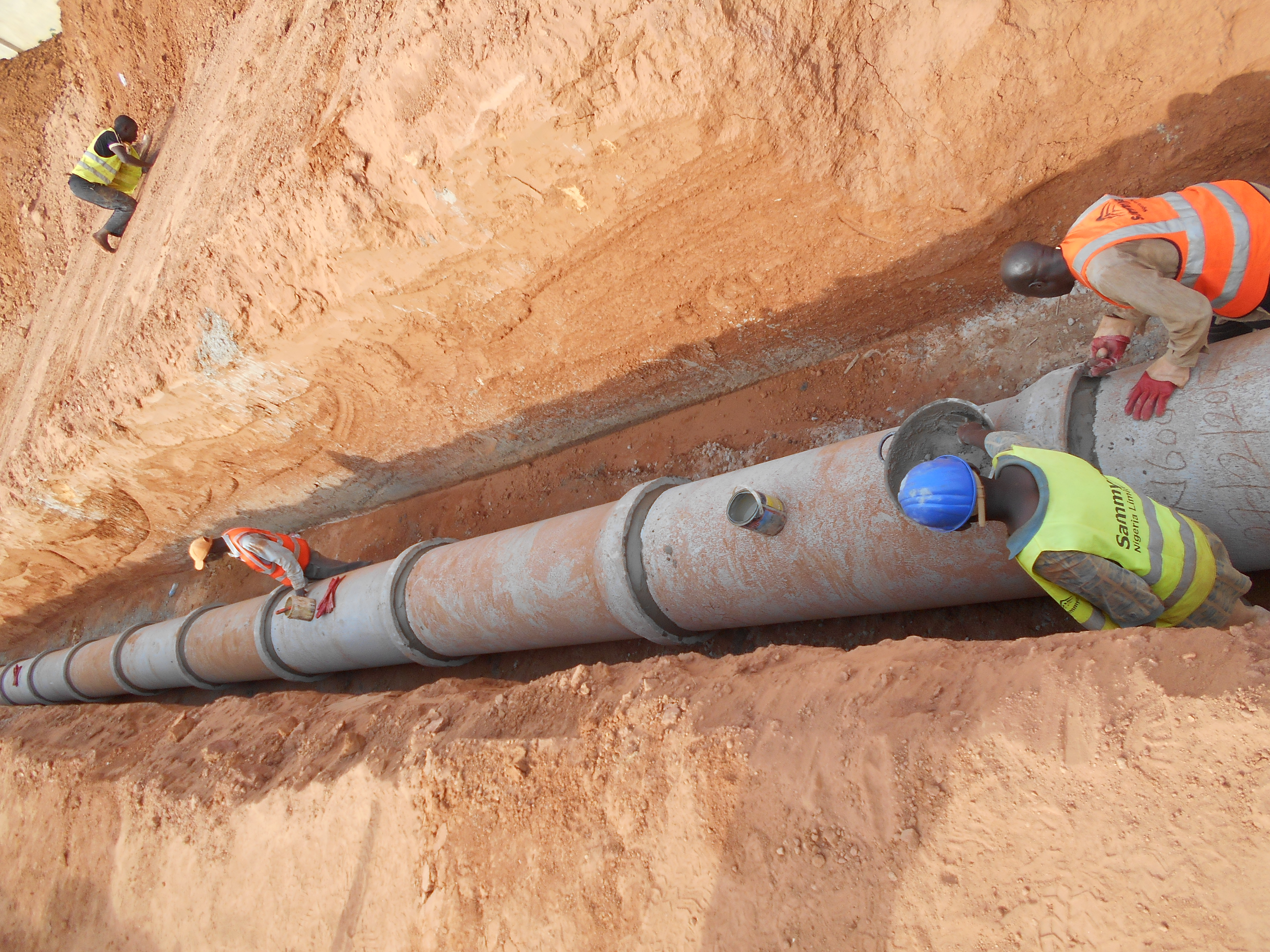 Storm water pipe This is an image of "African people at work" from Nigeria